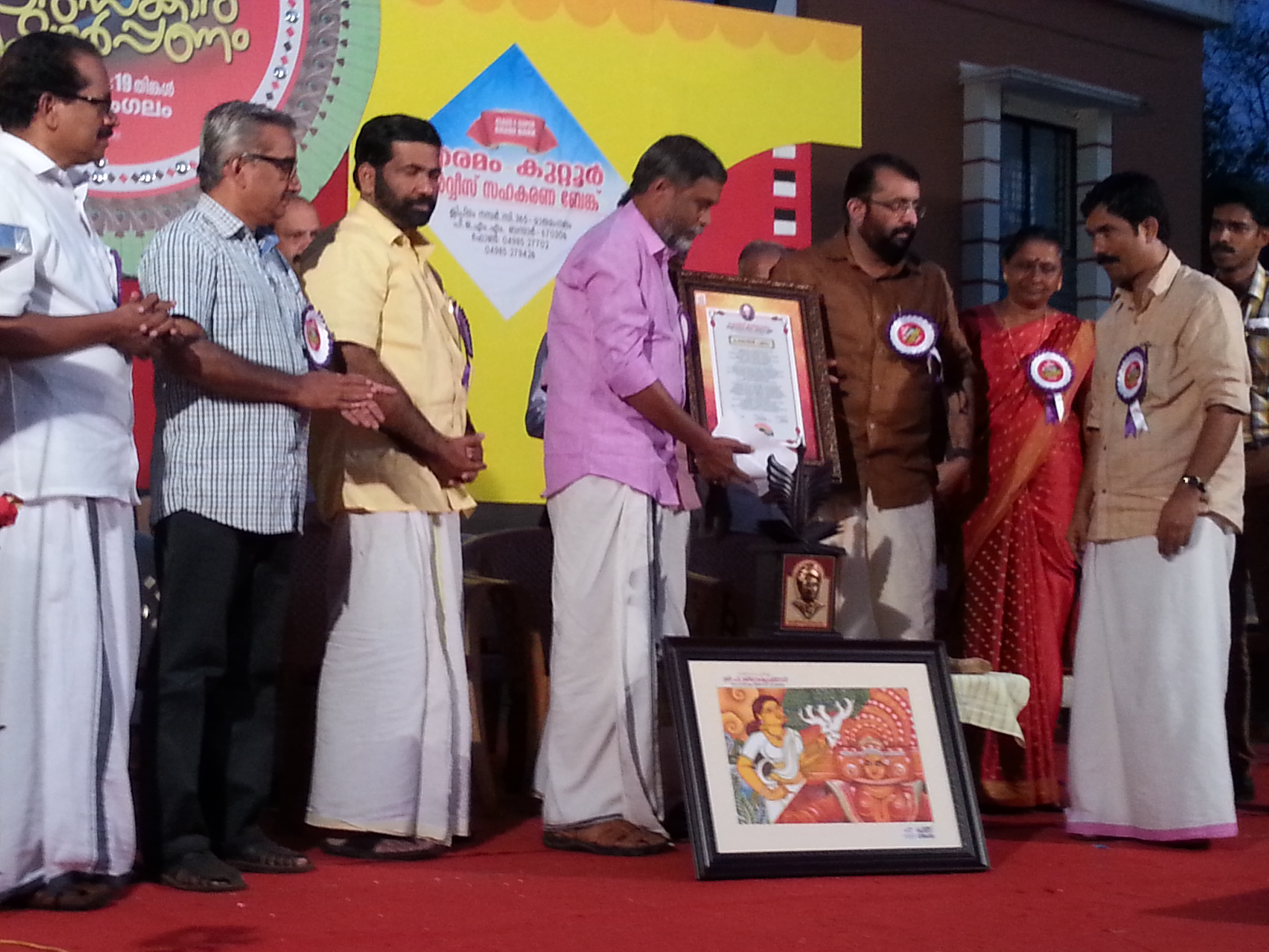 kesari nayanar award,കേസരി നായനാര്‍ പുരസ്കാരം